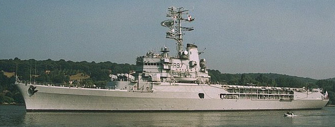 Cropped version of Image:Jeanne D Arc 2.jpg, with better color balance. The helicopter carrier Jeanne d'Arc sailing down the Seine.